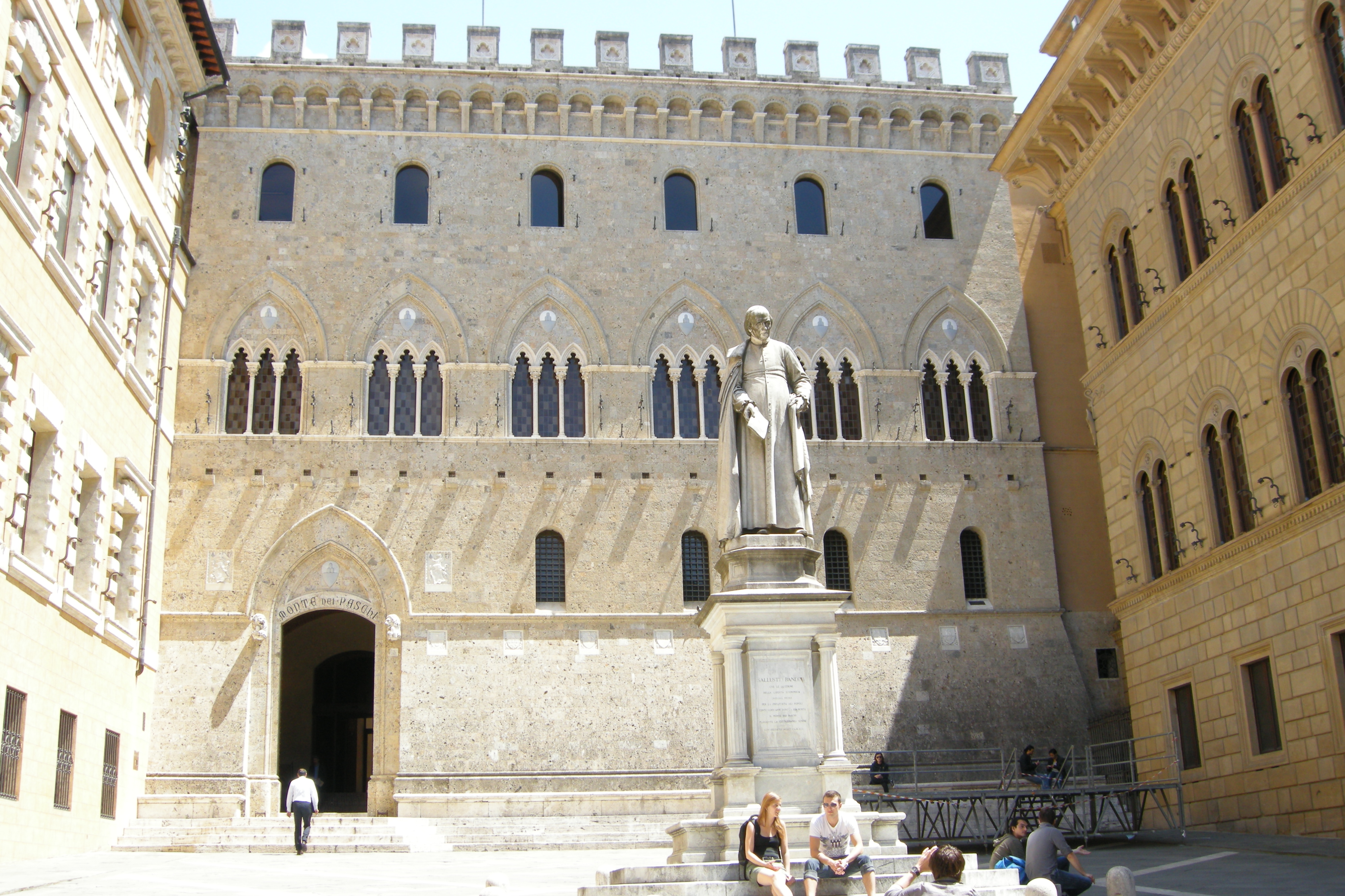 Banca Monte dei Paschi di Siena, Siena, Italy. Among the banks existing in the present, it is the oldest bank of the world.